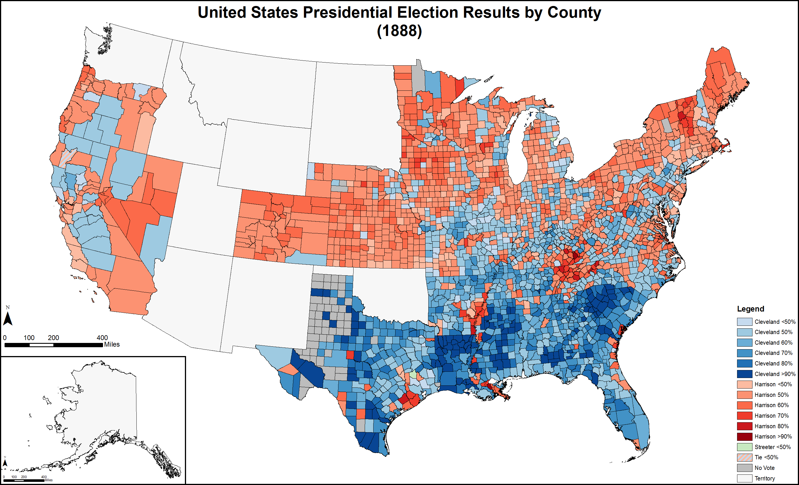 Presidential election results by county (1888). Colors based on Colorbrewer 2.0.